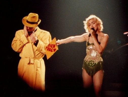 Photo taken during one of the concerts in 1990